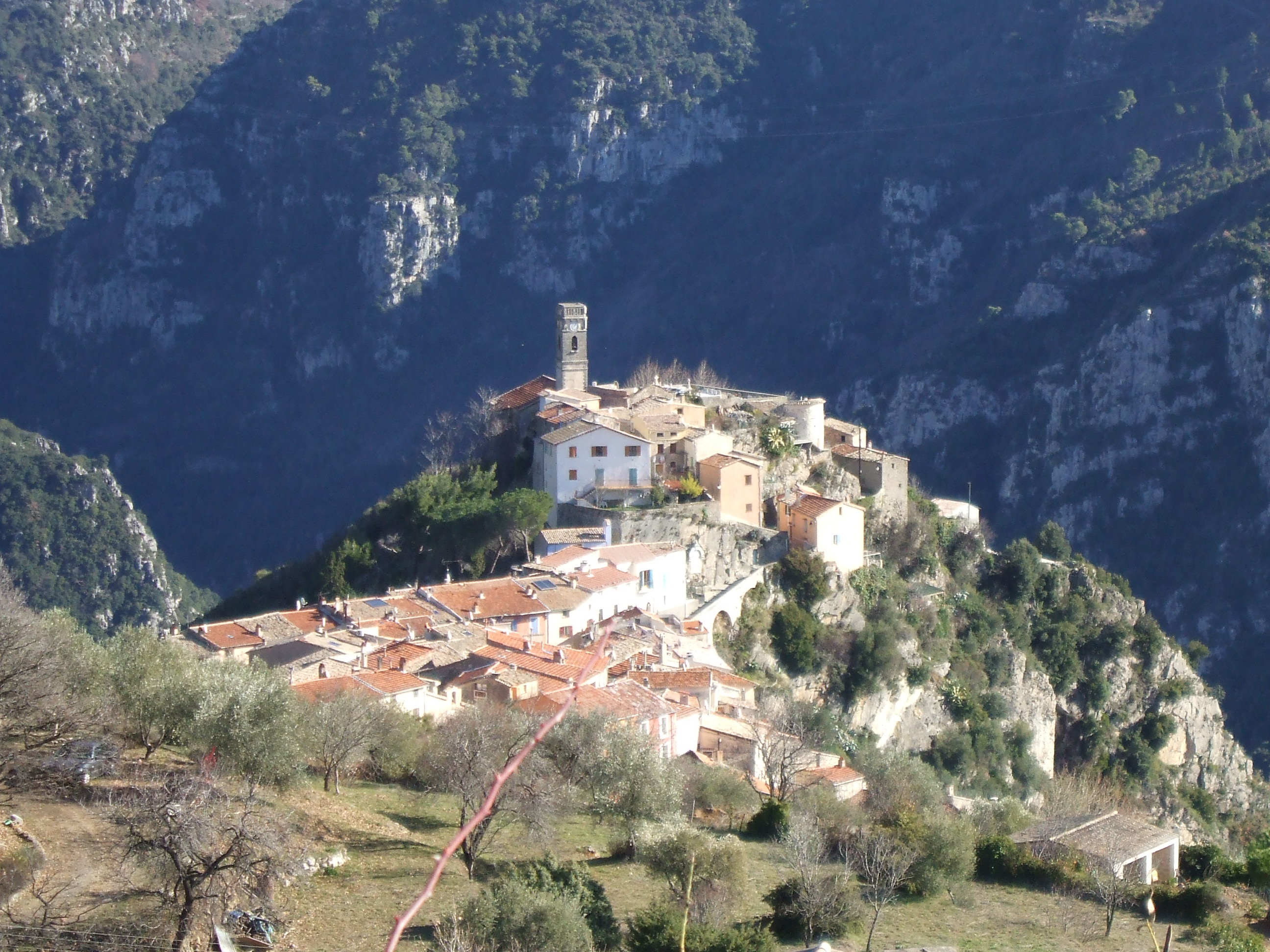 Bonson, Alpes Maritimes, France